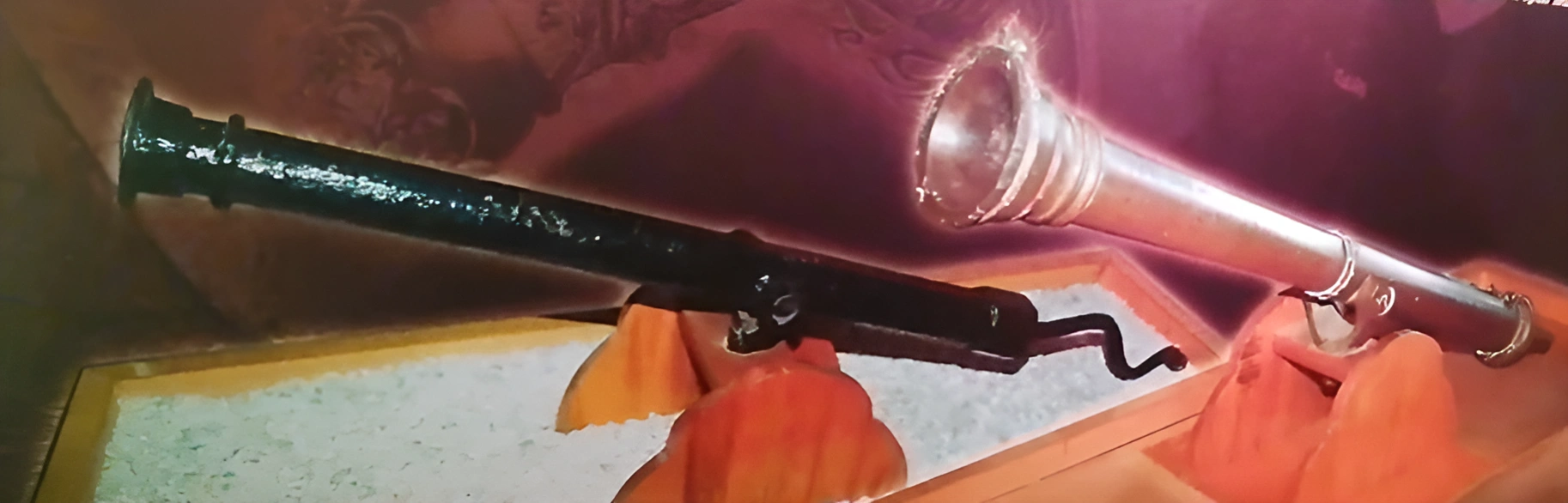 Two cannons (more accurately swivel guns) in Muzium Istana Jahar, Kota Bharu, Kelantan, Malaysia.